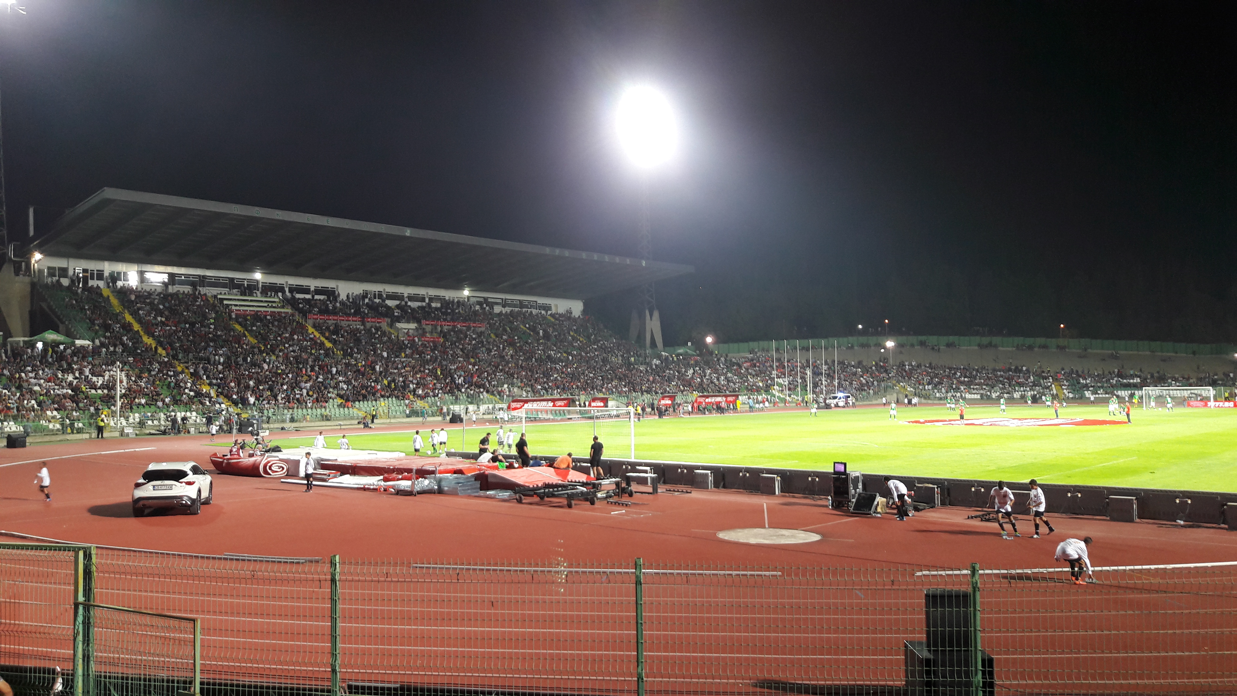 Stadium Bero in Stara Zagora